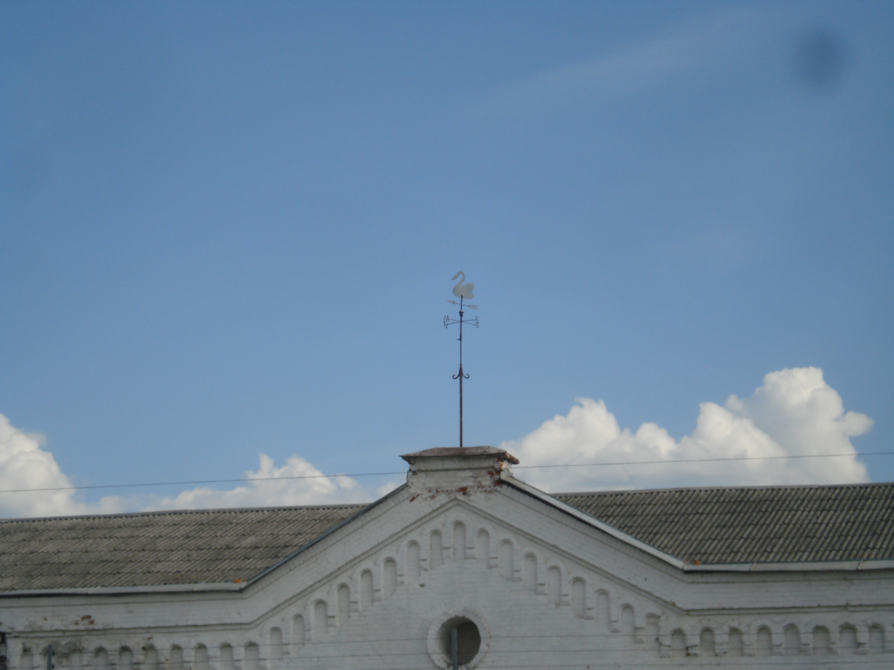 Daugavpils prison. 18 Novembra Street 66a. Detail